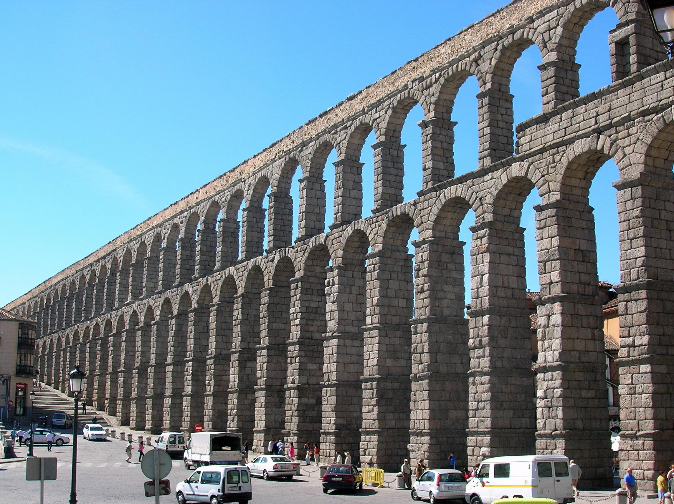 Acueducto de Segovia